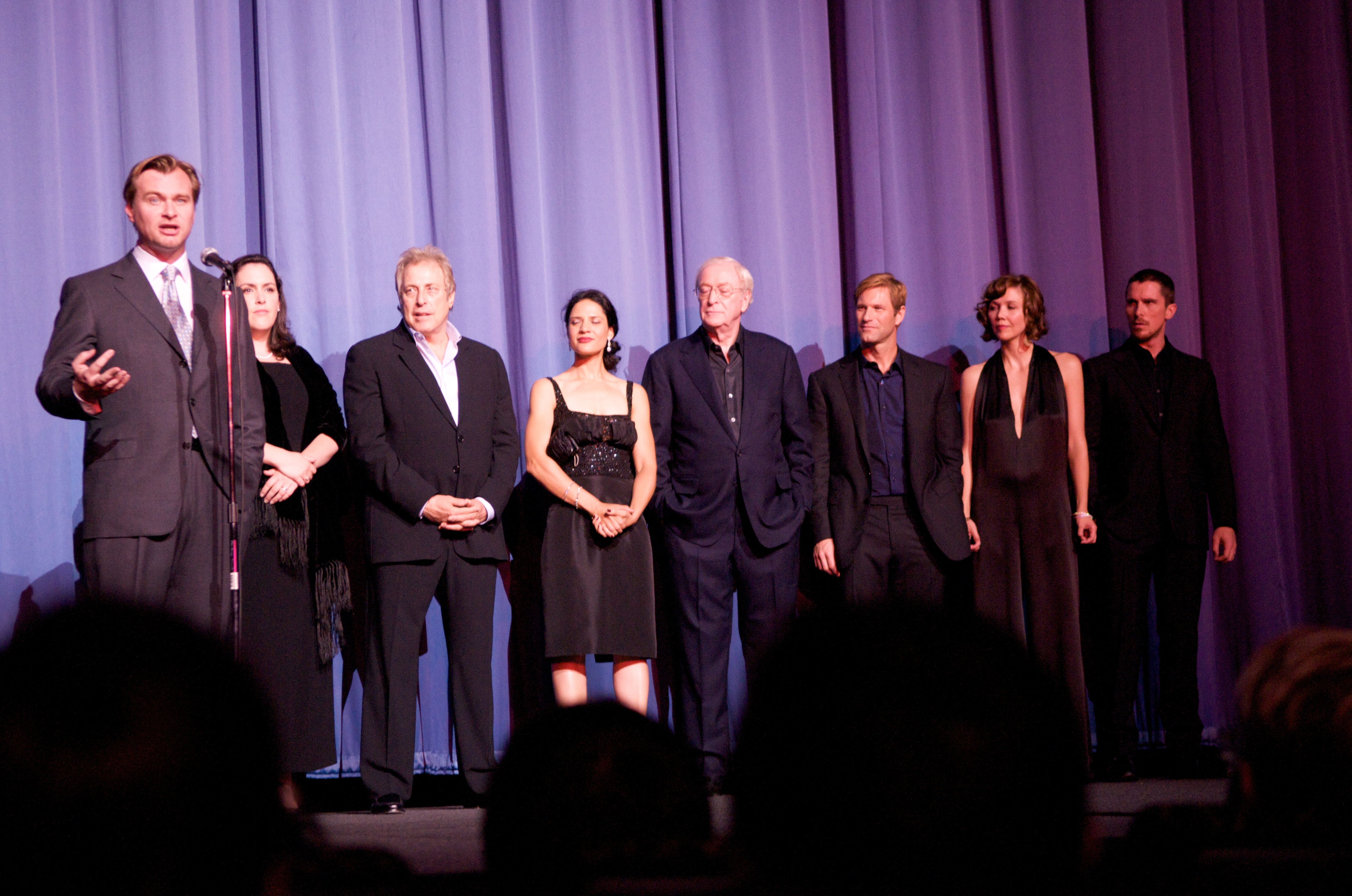 Cast and crew of The Dark Knight at the European premiere in London. From left to right: Director Christopher Nolan, producers Emma Thomas and Charles Roven, actors Monique Curnen, Michael Caine, Aaron Eckhart, Maggie Gyllenhaal and Christian Bale.